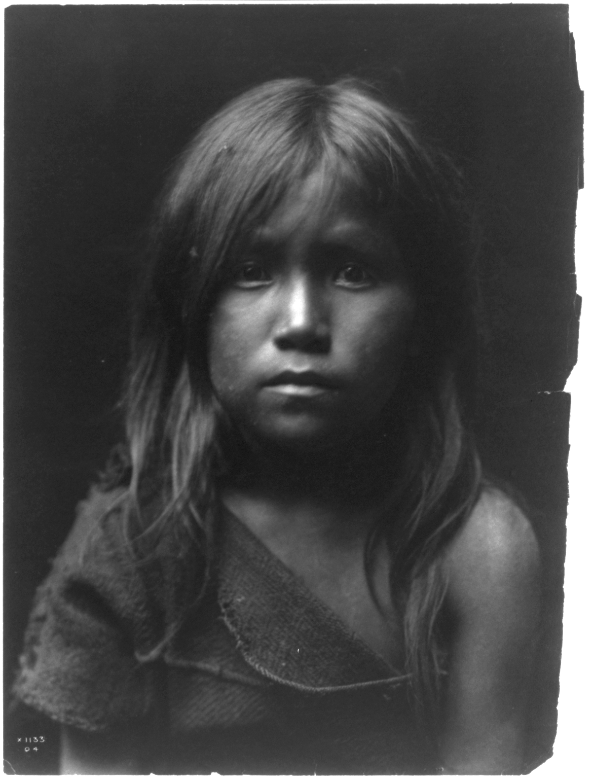 Hopi girl, head-and-shoulders portrait, facing front.